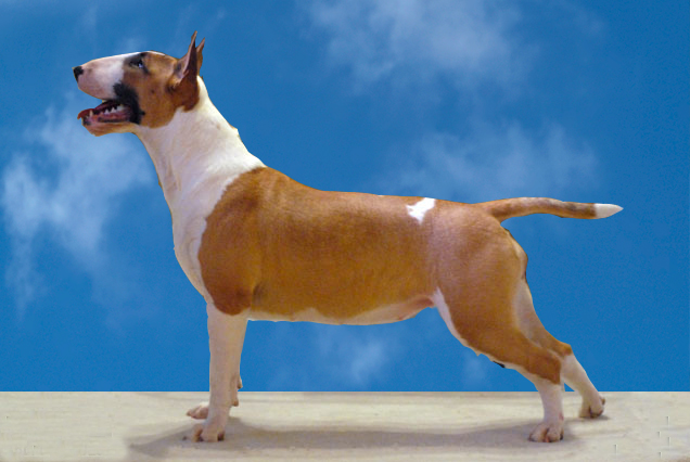 bull terrier, female